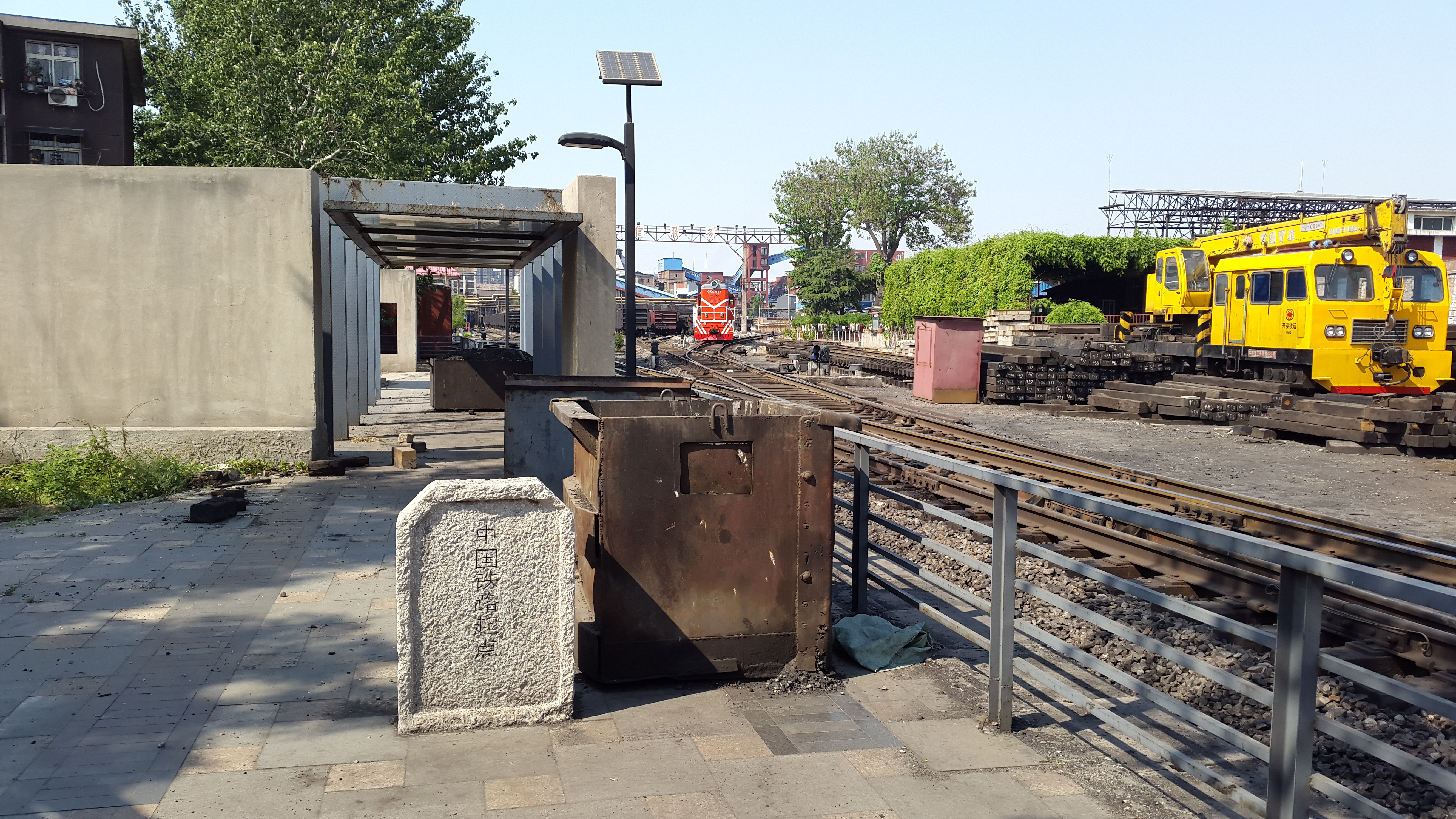 The origin of China Railway, located in Tangshan, China